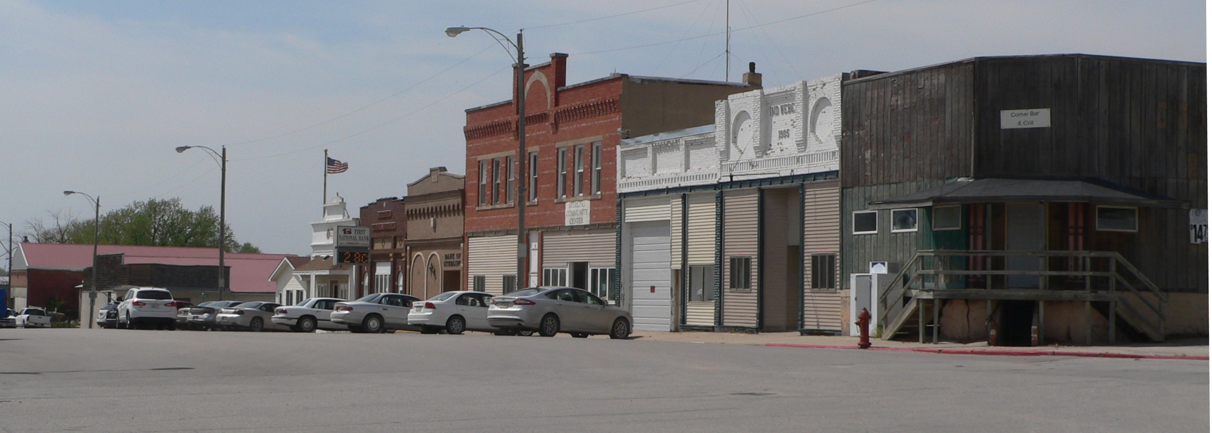 Downtown Sterling, Nebraska: north side of Broadway, seen from Main.